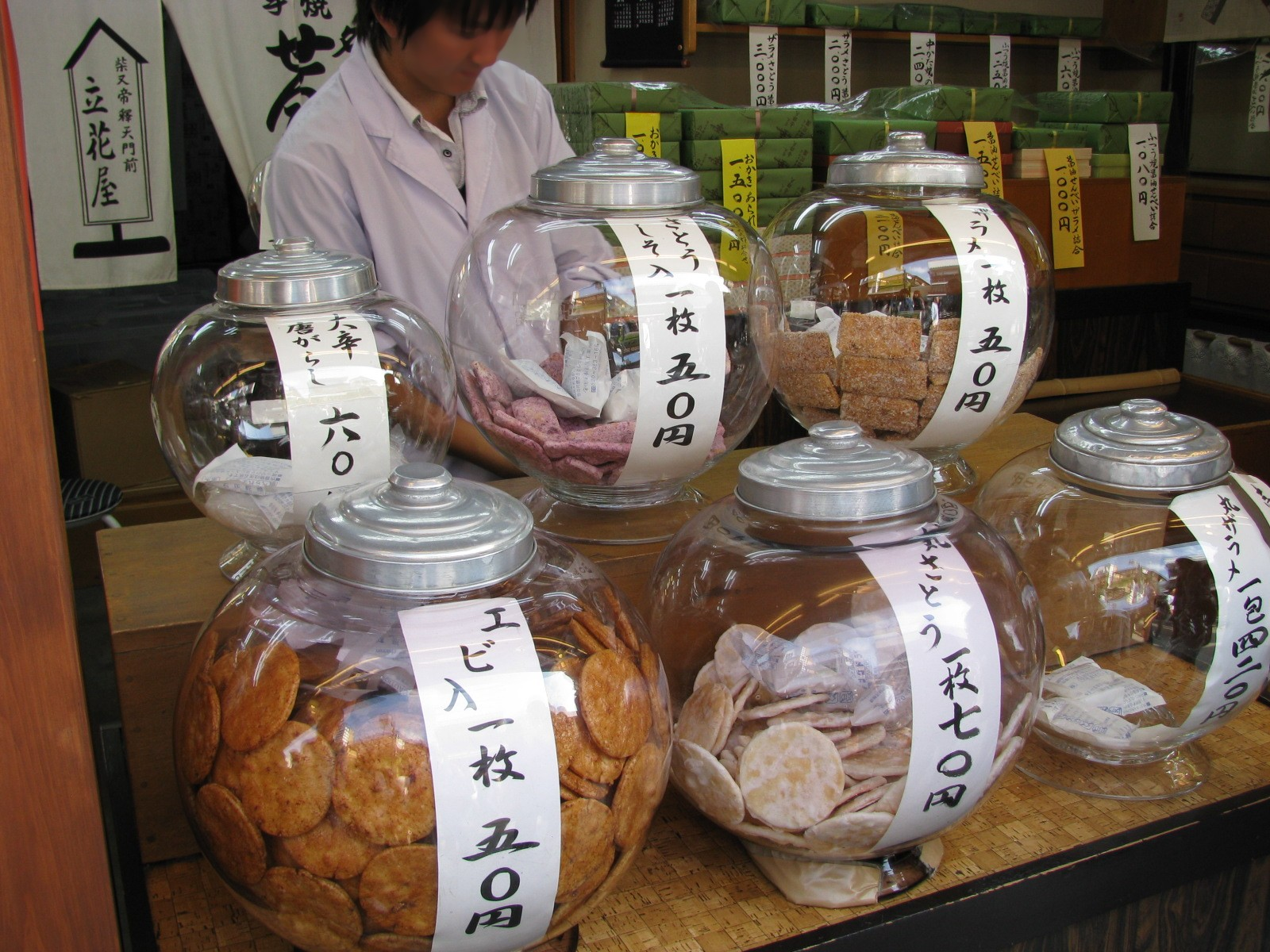 These are the Senbei. The Senbei is a Japanese crackers.